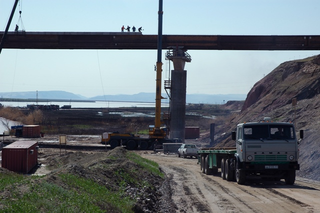 Construction on the Afghanistan-Tajikistan Bridge